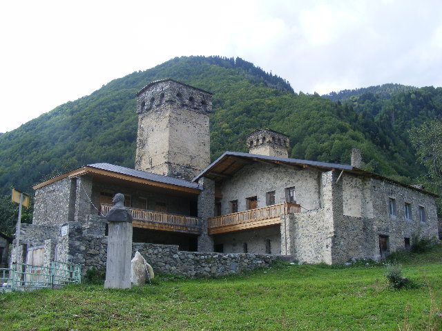 Mikheil Khergiani House Museum